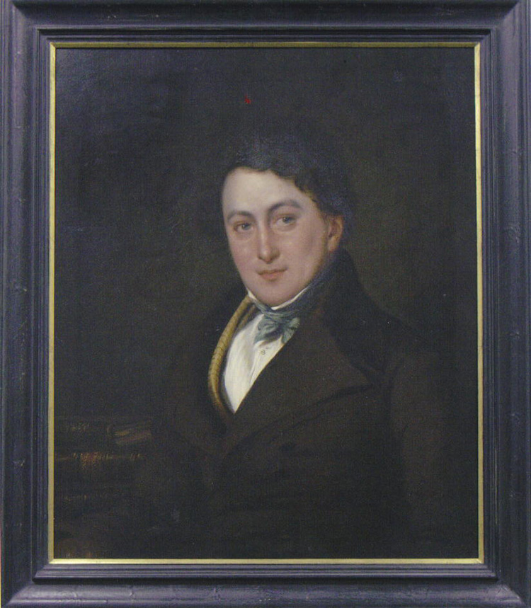 Gerrit van de Linde (1808-1858) during his student years in Leiden (ca. 1833?). 1843-1858: headmaster 'collège français', Cromwell House (Highgate). Collection Nederlands Letterkundig Museum, The Hague (The Netherlands), on loan from P.A.M. van de Linde.